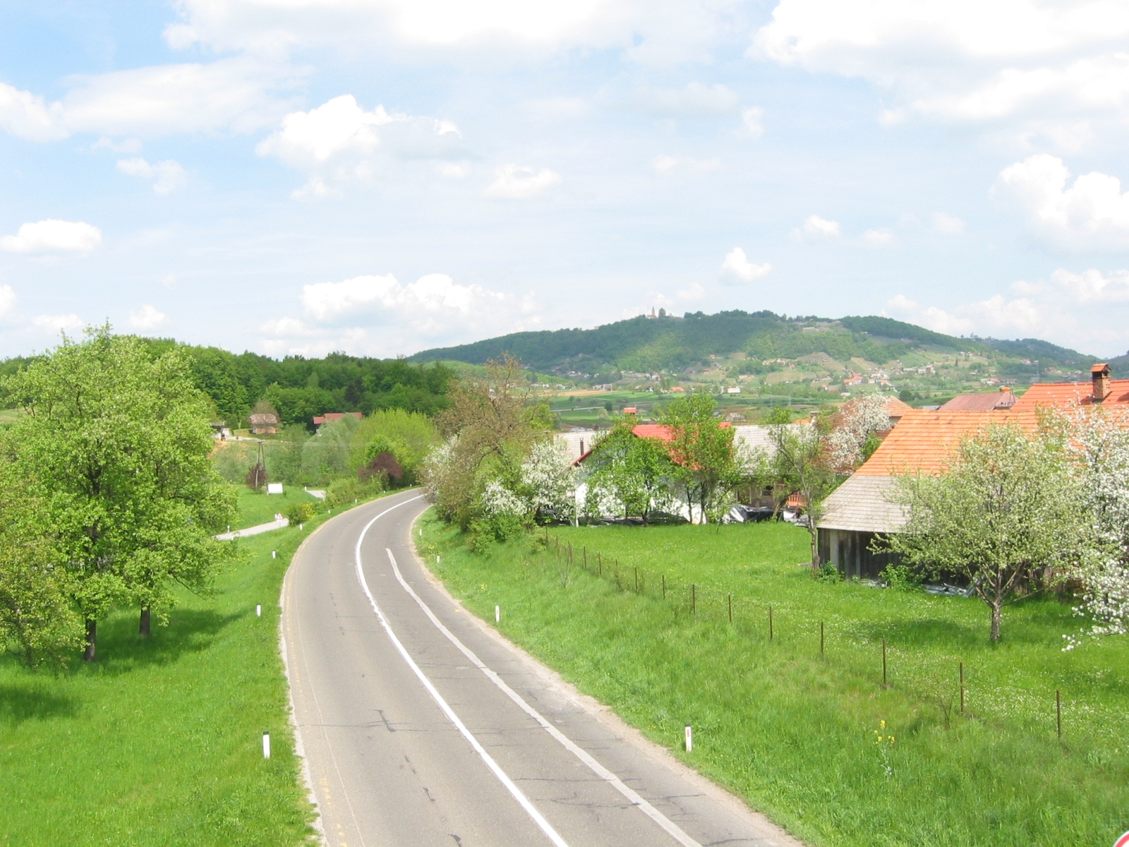 Brotherhood and Unity Highway near Dolenje Kronovo (2005)